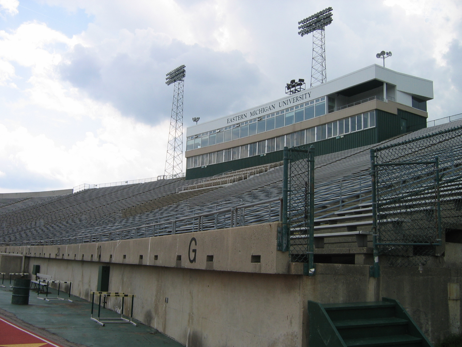 Rynearson Stadium, Home Stands